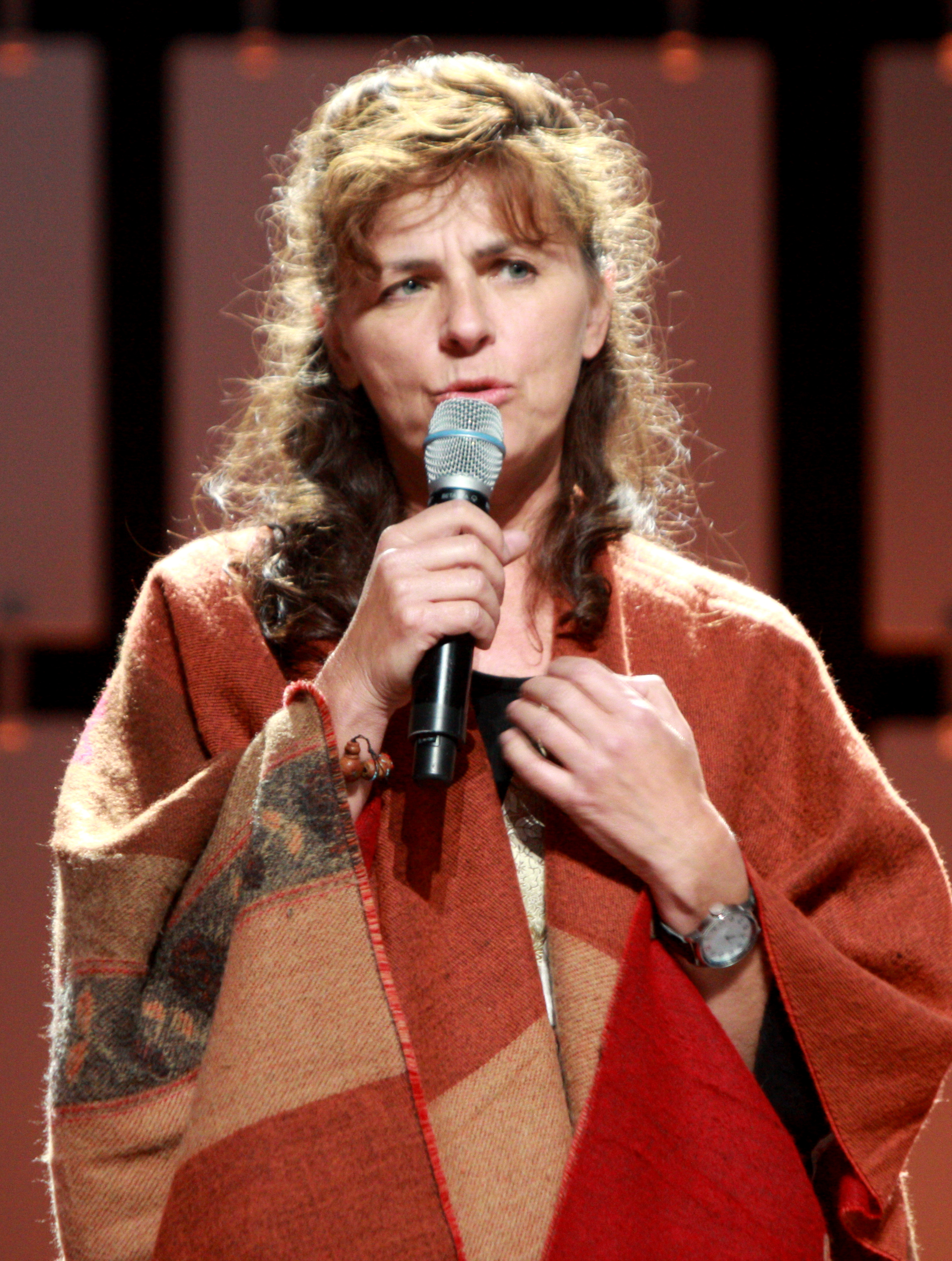 Mira Furlan at the 2013 Phoenix Comicon in Phoenix, Arizona.